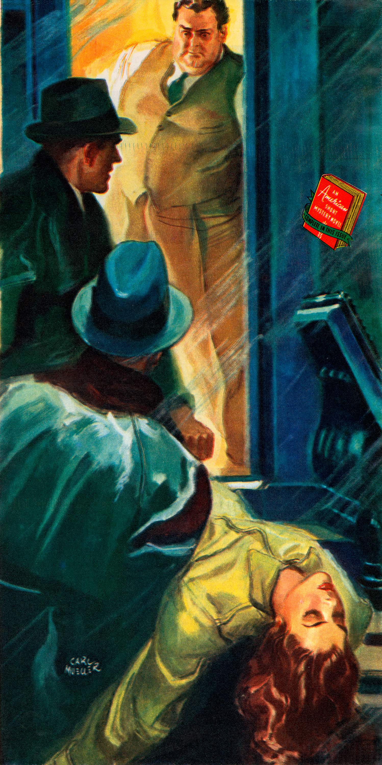 Illustration from the November 1940 printing of "Bitter End" (1940), a Nero Wolfe novella by Rex Stout, in The American Magazine